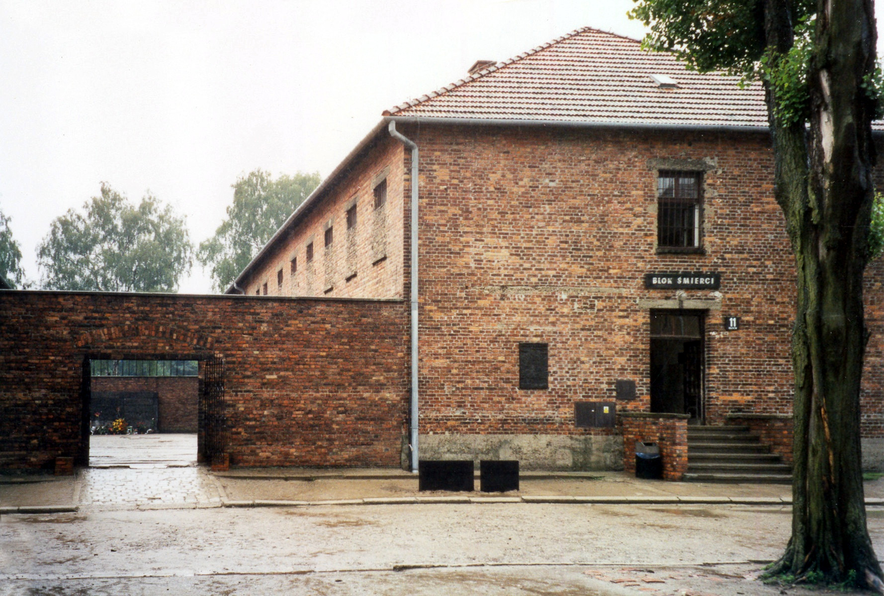 Auschwitz I - The Execution Wall seen through the gate